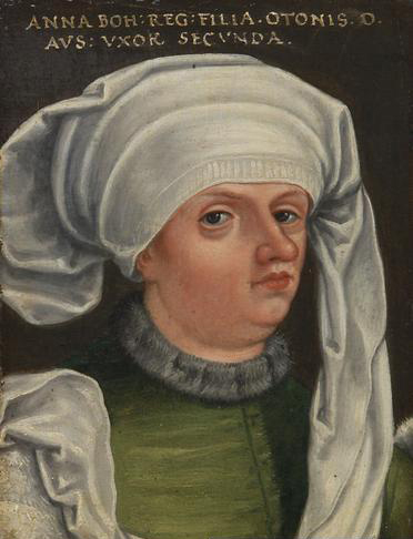 Anna of Bohemia, 2nd wife of Otto the Merry